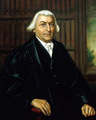 The official portrait of Supreme Court Justice James Iredell.